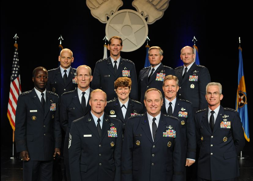 senior U.S. Air Force leadership in 2013